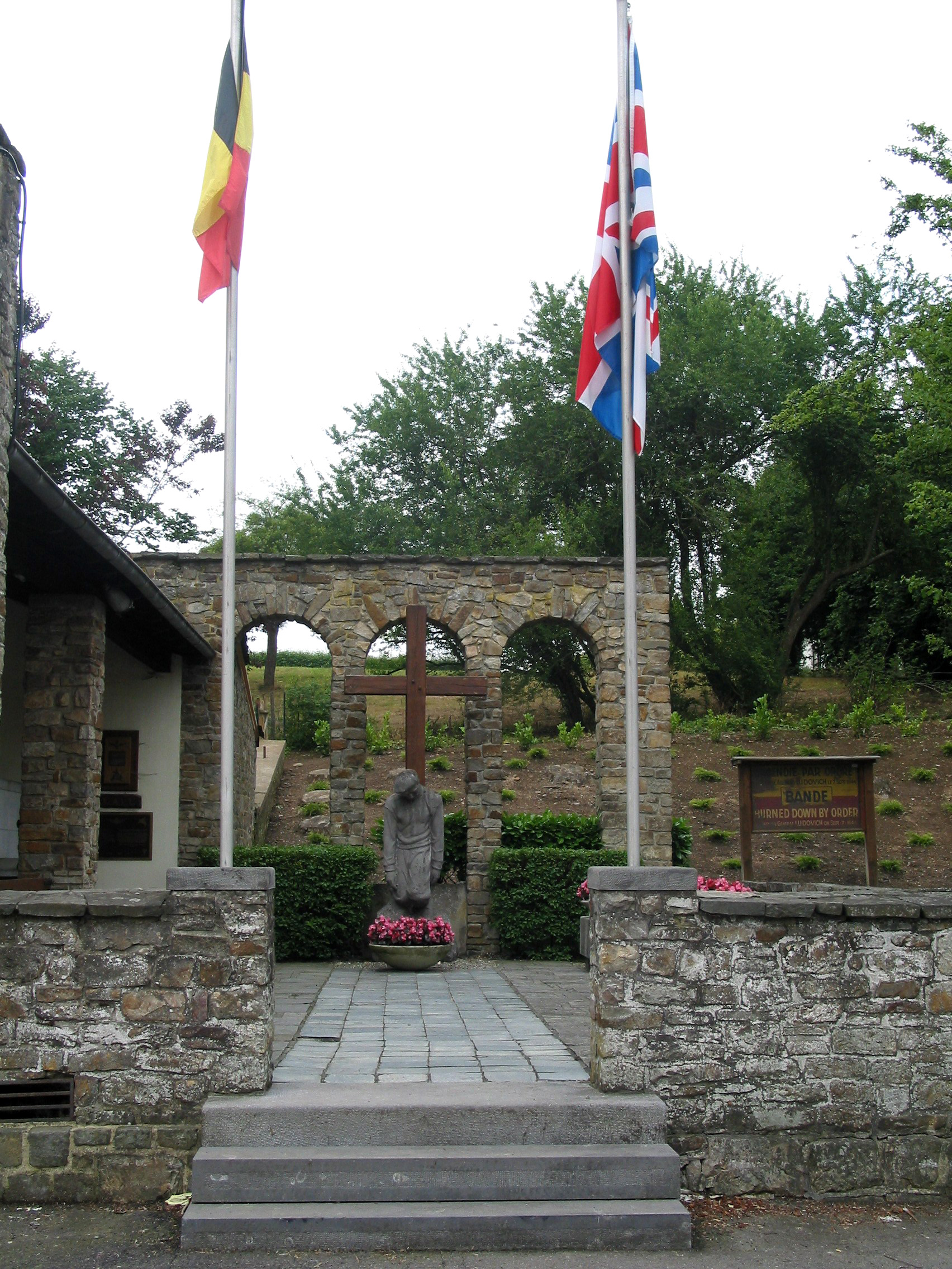 Memorial to the 34 belgians civilians murdered in the village by the nazis the 24th december 1944.